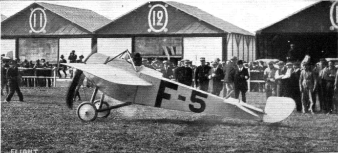 Emile Védrinnes in the Ponnier D.III at Rheims for the 1913 Gordon-Bennet Trophy.